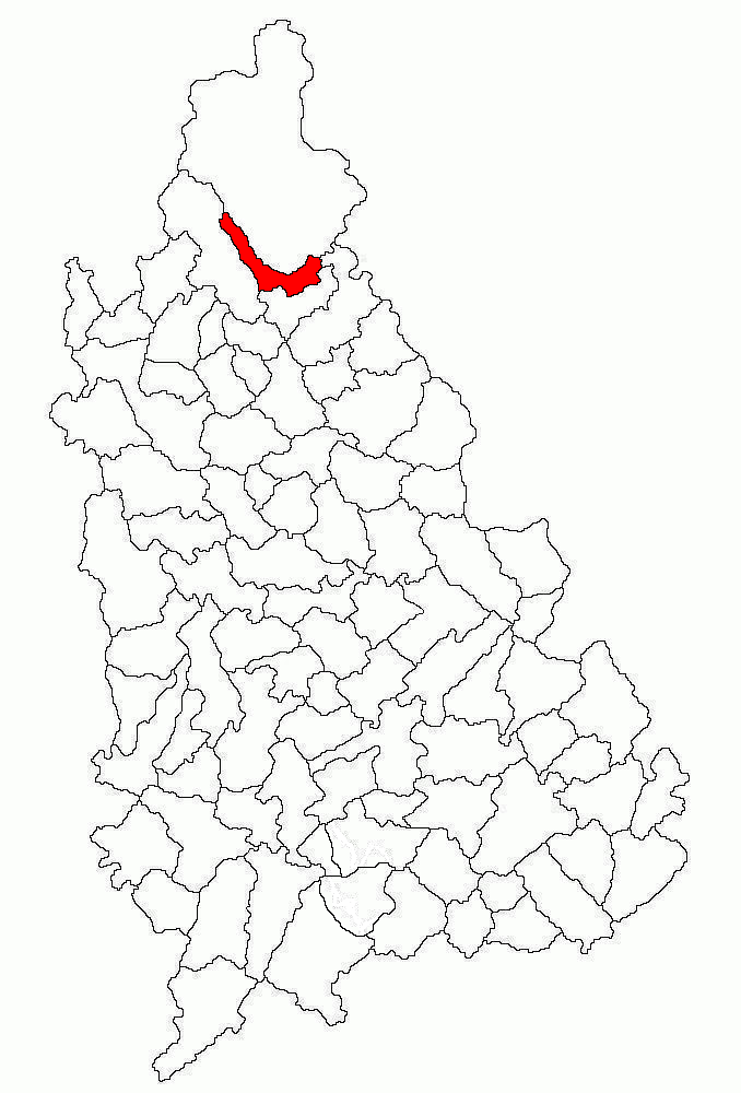 Locator map of Pietroșița Commune in Dâmbovița County, Romania